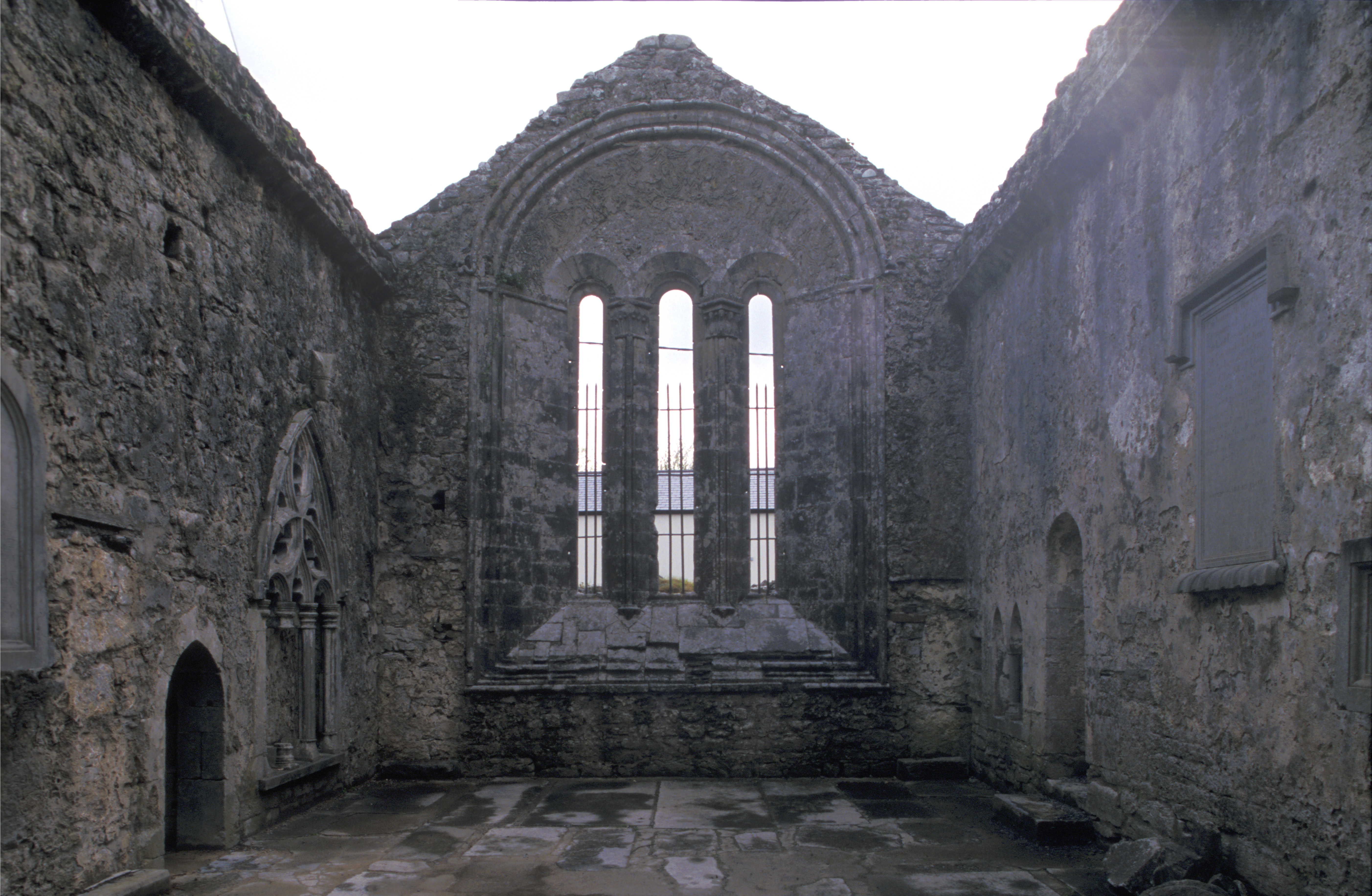 The cathedral ruins, Kilfenora